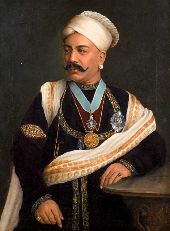 PORTRAIT OF SIR TANJORE MADHAVA RAO,He was painted by Ravi Varma on a number of occasions. Two portraits now in the Maharaja Fatesingh Museum, Baroda and another in the Victoria Memorial Hall, Calcutta show a slightly older Sir Madhava Rao than the current lot but the similarities are apparent. Whether this was painted by Ravi Varma or another artist patronized by Sir Madhava Rao is uncertain but records indicate that Ravi Varma was invited to Baroda by Sir Madhava Rao in 1880, which would tie in with the decipherable part of the inscription 'Baroda 80'.